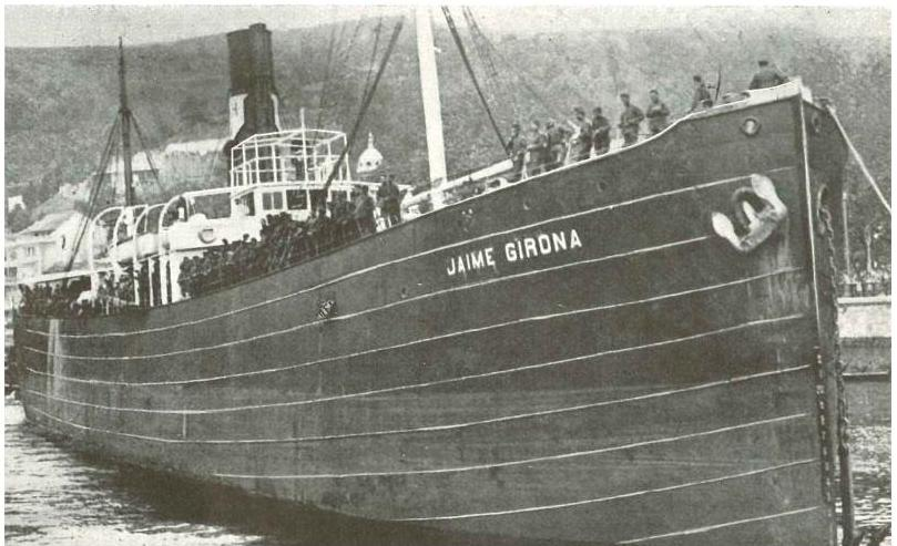 Troops being transported to Melilla during the war between Spain and Morocco